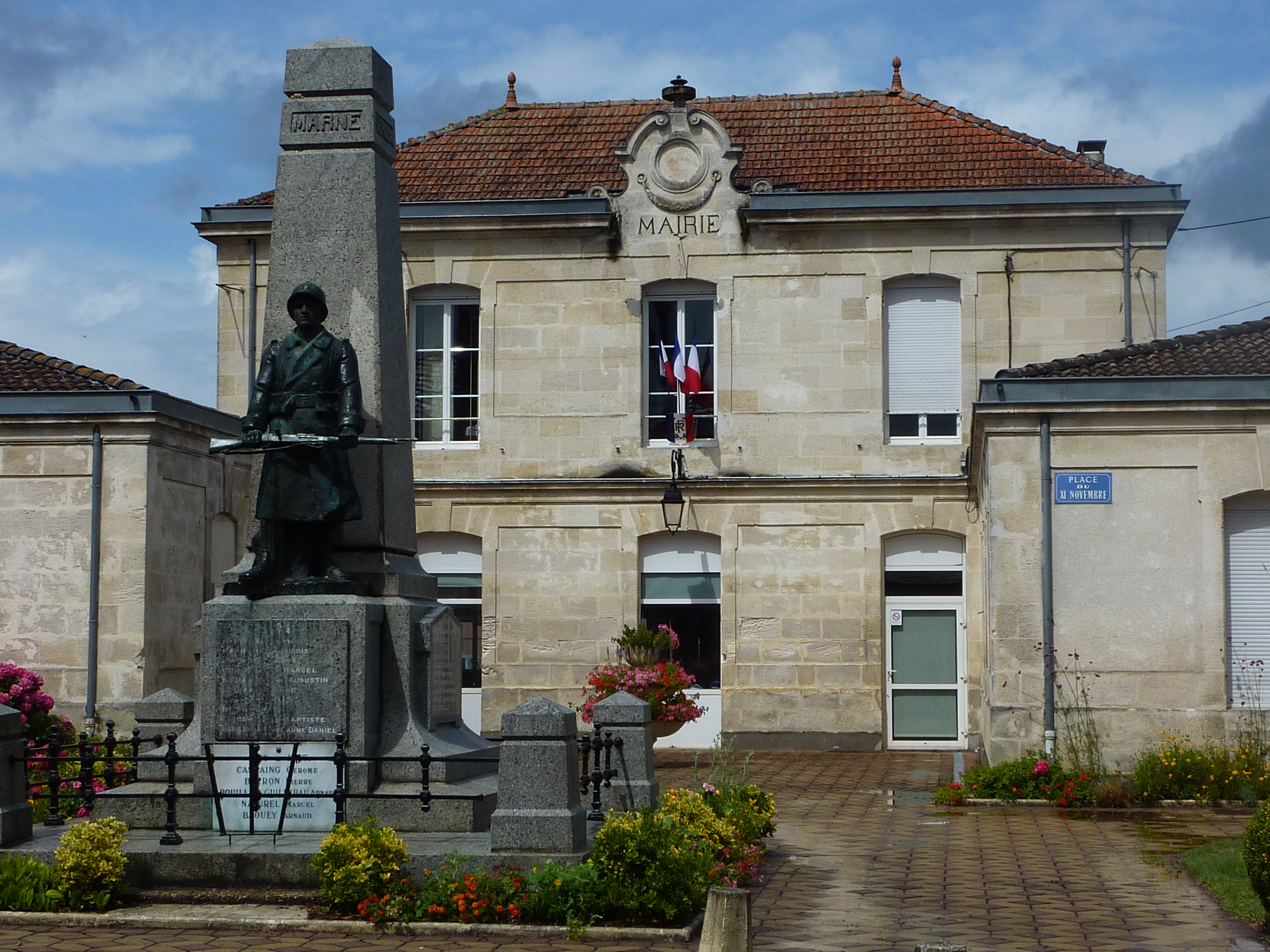 Townhall of Sainte-Hélène (Gironde)